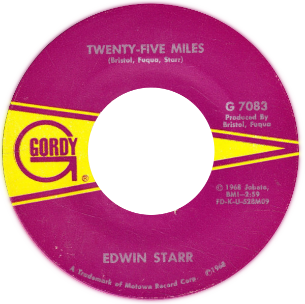 One of Side-A labels of US vinyl single "Twenty-Five Miles" by Edwin Starr